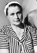 Finnish architect Aino Aalto